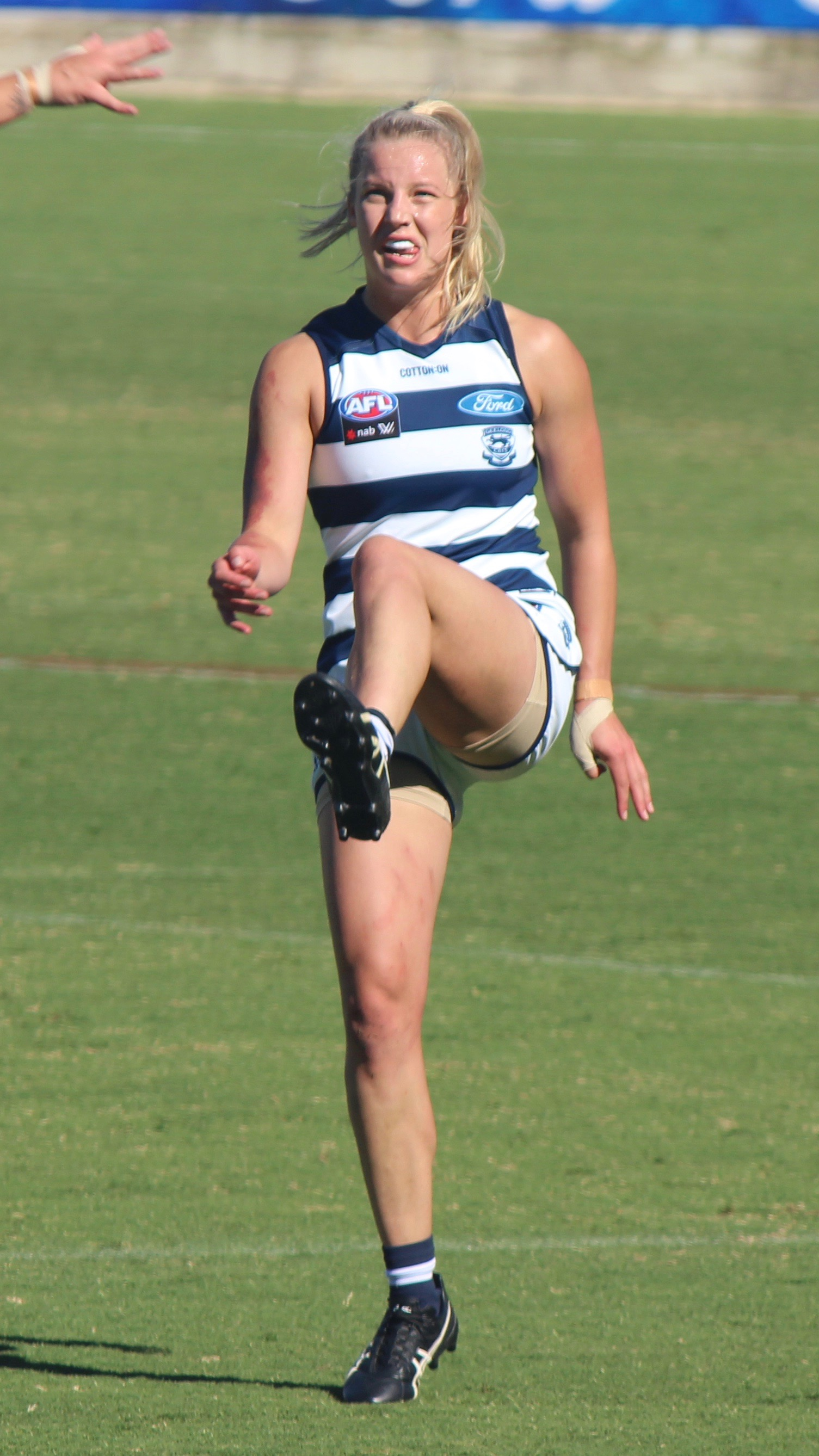 Jordan Ivey with Geelong during a match against Carlton at Kardinia Park in round 4 of the 2019 AFL Women's season.